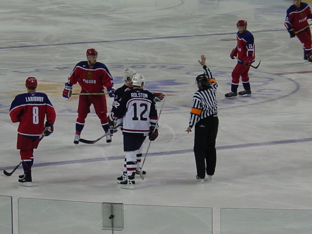 Russia vs. the United States in a preliminary game at the 2002 Winter Olympics.